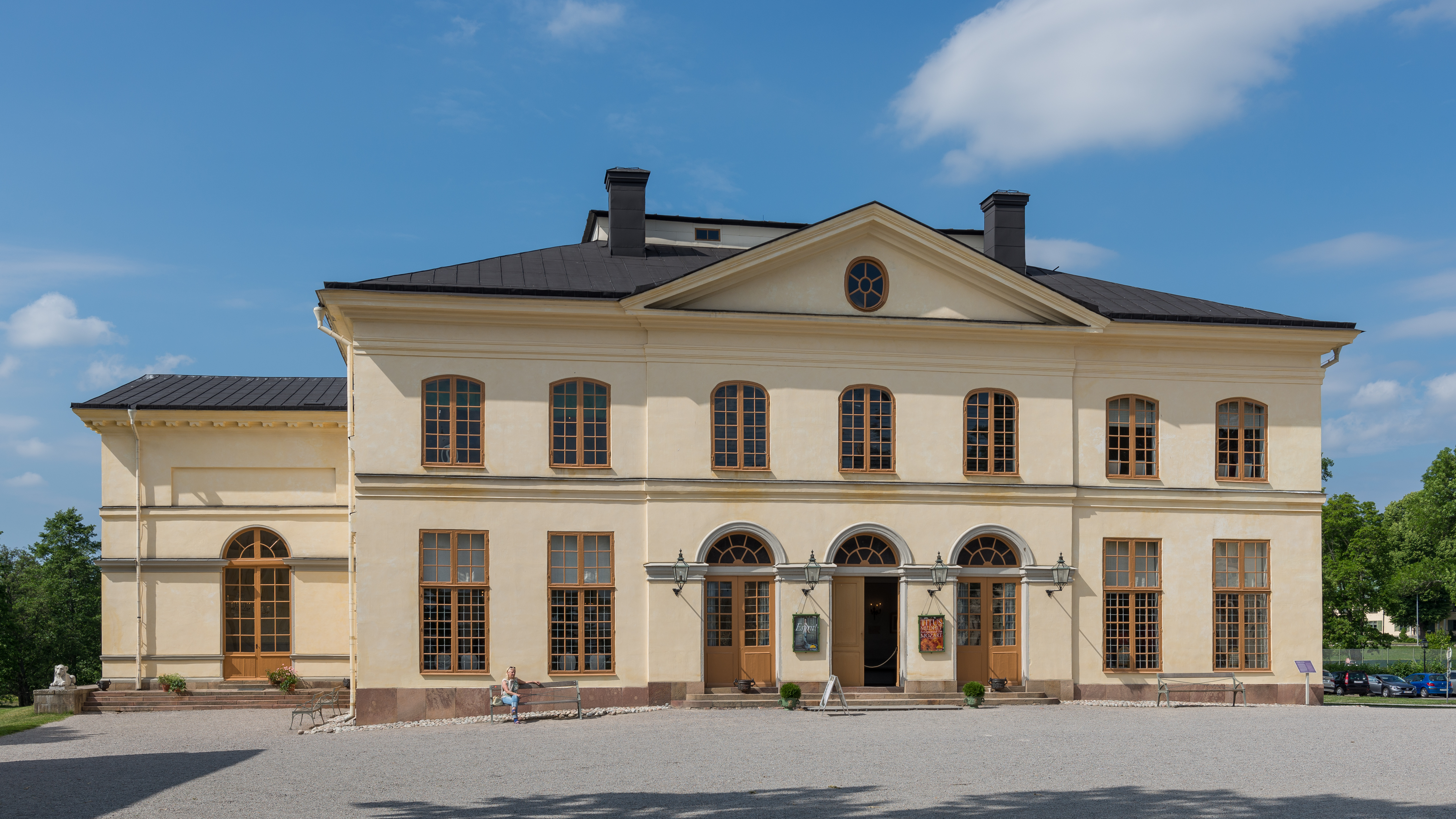 The south facade of Drottningholm Palace Theatre seen from Teaterplanen (the Theatre Square).